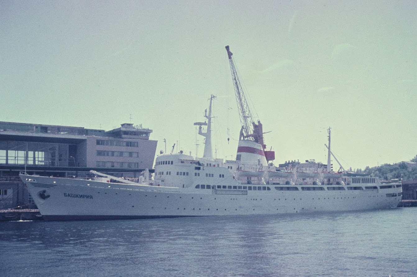 Bashkiriya at quay 19 in Port of Odessa (Sea Terminal), Kabotazhnaya Bay, Gulf of Odessa, Black Sea, Odessa circa 1989